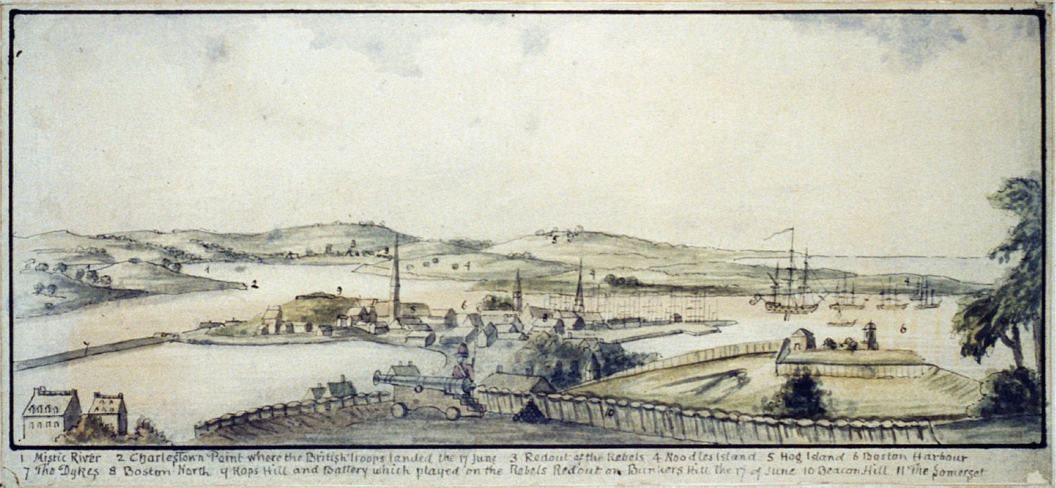 View from Beacon Hill. Watercolor landscape drawing shows view from a British redoubt, with cannon and soldier in the foreground, on Beacon Hill. Includes legend which identifies the prominent features (1) Mystic River, (2) Charlestown Point, where the British tropps landed the 17 June, (3) Redout of the Rebels, (4) Noodles Island, (5) Hog Island, (6) Bosotn Harbour, (7) The Dykes, (8) Boston North, (9) Kops Hill (i.e. Copp's Hill) and Battery which played on the Rebels Redout on Bunkers Hill the 17 of June, (10) Beacon Hill, and (11) The Somerset. Published between 1775 and 1780. Repository: Library of Congress Prints and Photographs Division Washington, D.C. 20540 USA. Public Domain.